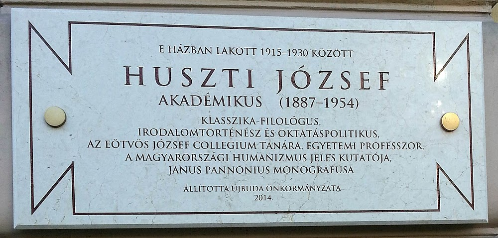 József Huszti commemorative plaque in Budapest District XI, Villányi Street No 4.